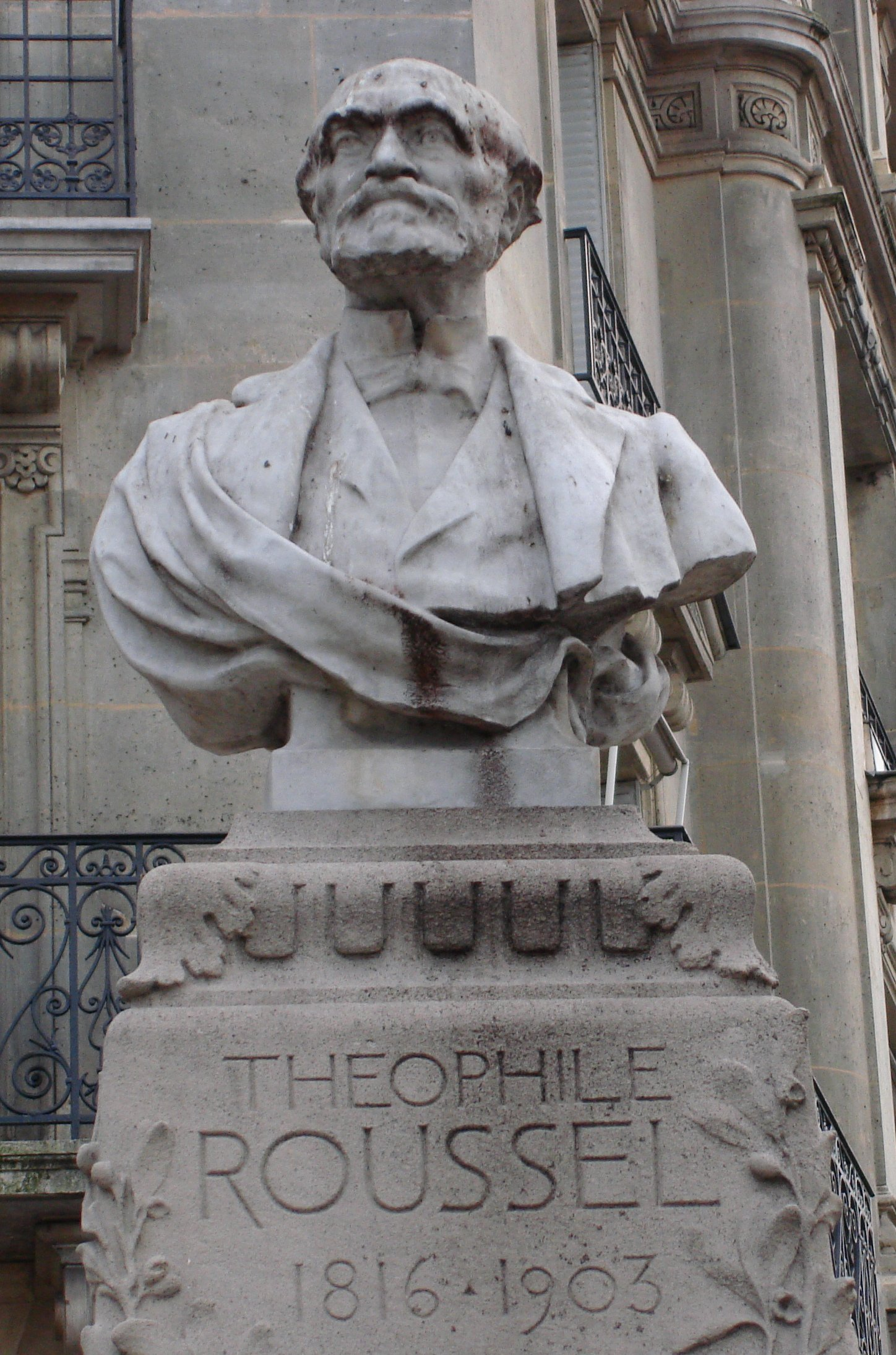 Bust representing Theophile Roussel, by Jean-Baptiste Champeil. Stone, 1906. Carrefour Denfert-Rochereau-Observatoire, Paris 14th arrondissement.